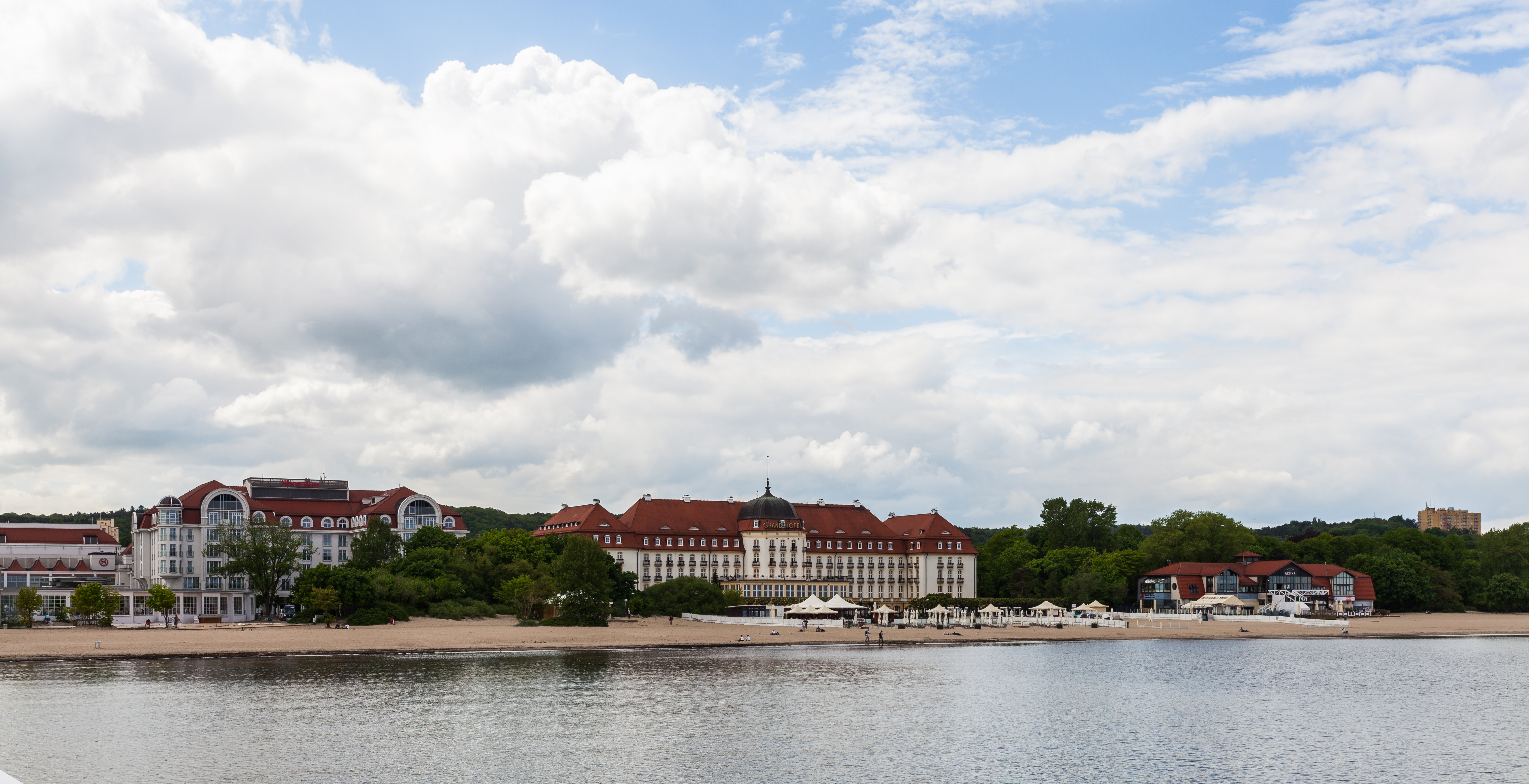 Grand Hotel, Sopot, Poland